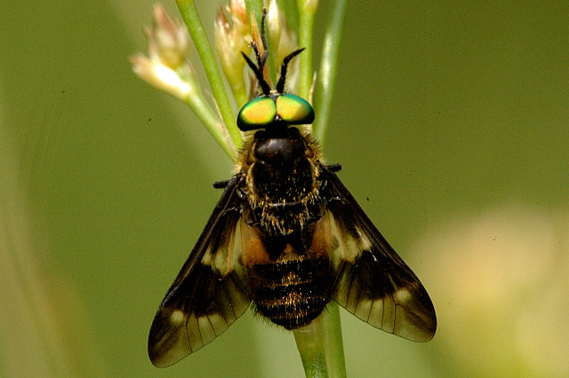 Picture taken in Commanster, Belgian High Ardennes . Species: male Chrysops relictus